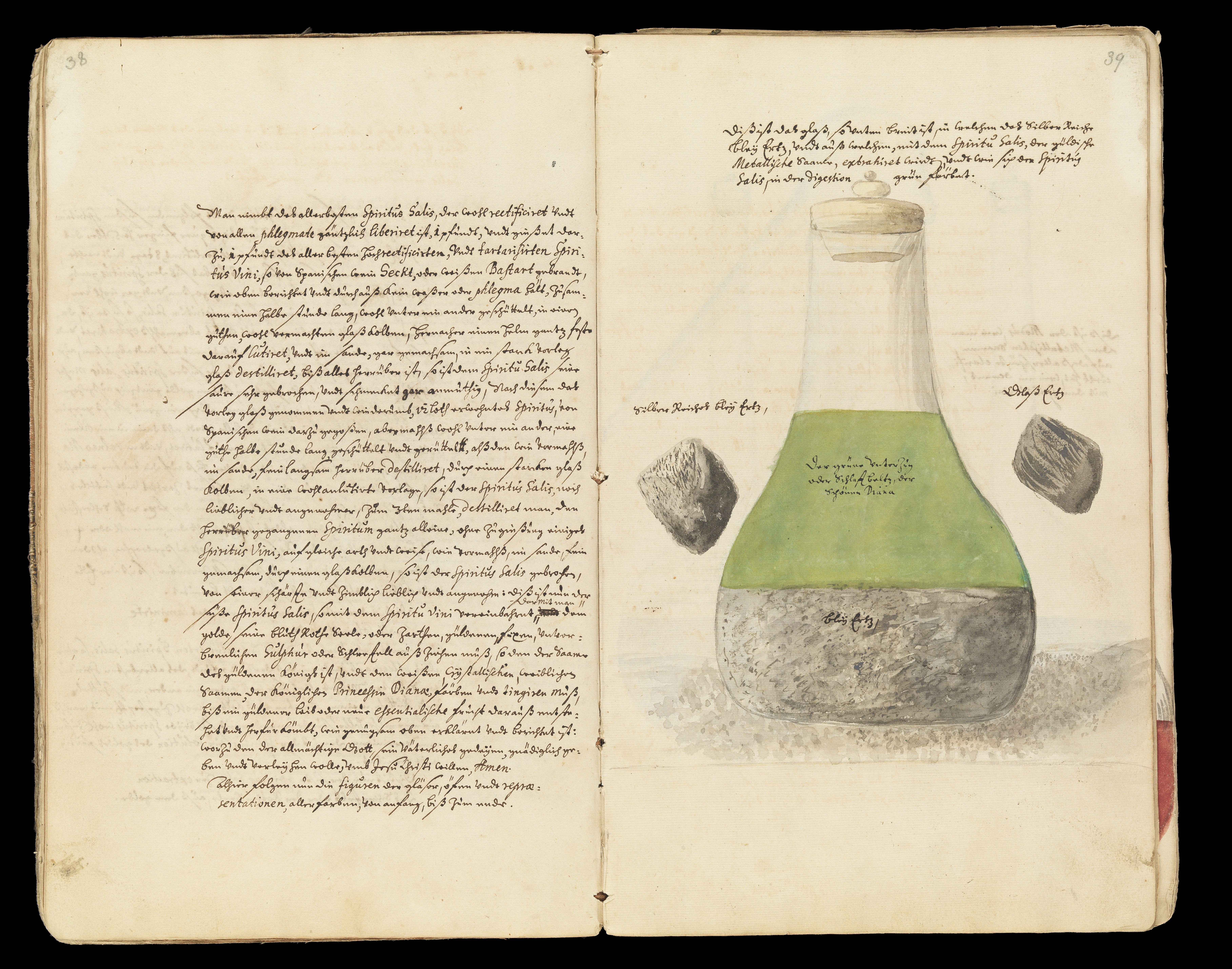 Von der Universal Tinctur. Author's holograph MS. Illustrated with 50 large drawings in water-colour or wash, one double-page and six full-page, of furnaces and alchemical apparatus, flasks, etc. The dedication to the Princess of Brandenburg is signed 'Christian Wilhelm, Baro von Krohnemann. Actum Bayreuth den 10 Augusti. 1677'. Produced in Bayreuth. Pages 38-39 Archives & Manuscripts